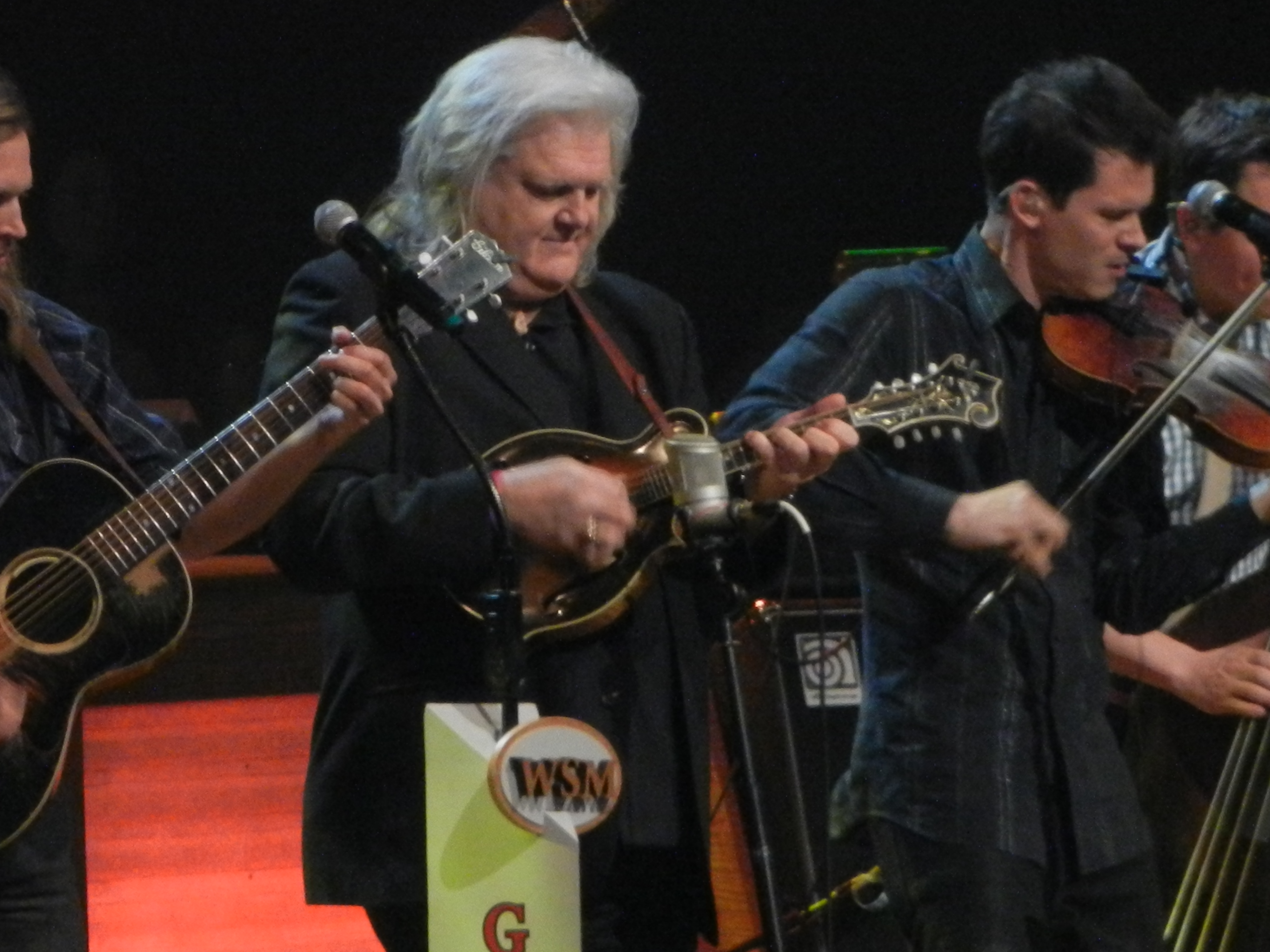 Ricky Skaggs jams with the Old Crow Medicine Show at the Grand Ole Opry on February 23, 2013